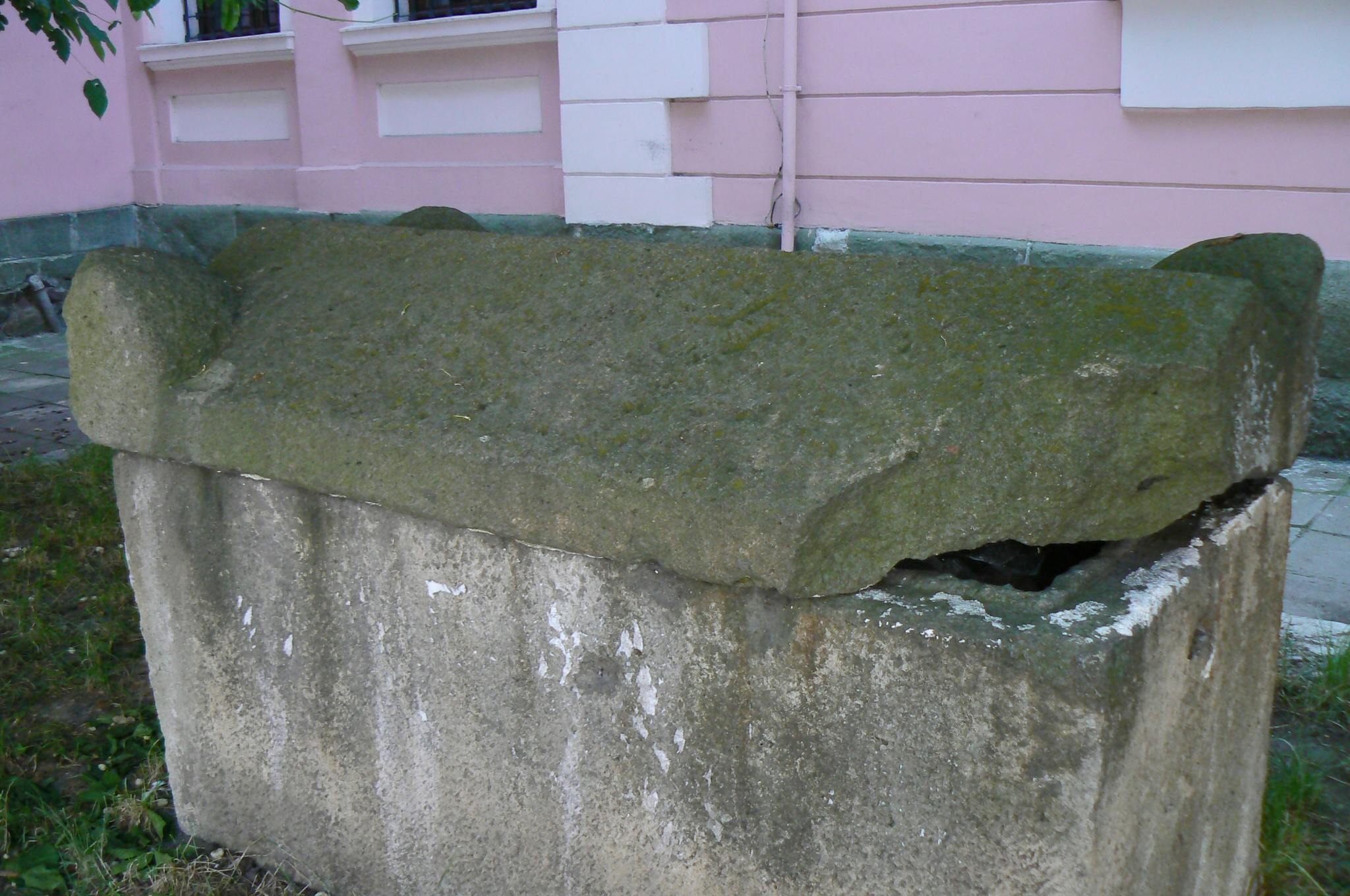 Thracian sarcophagus from village Bryastovets in the lapidarium of Burgas, Bulgaria